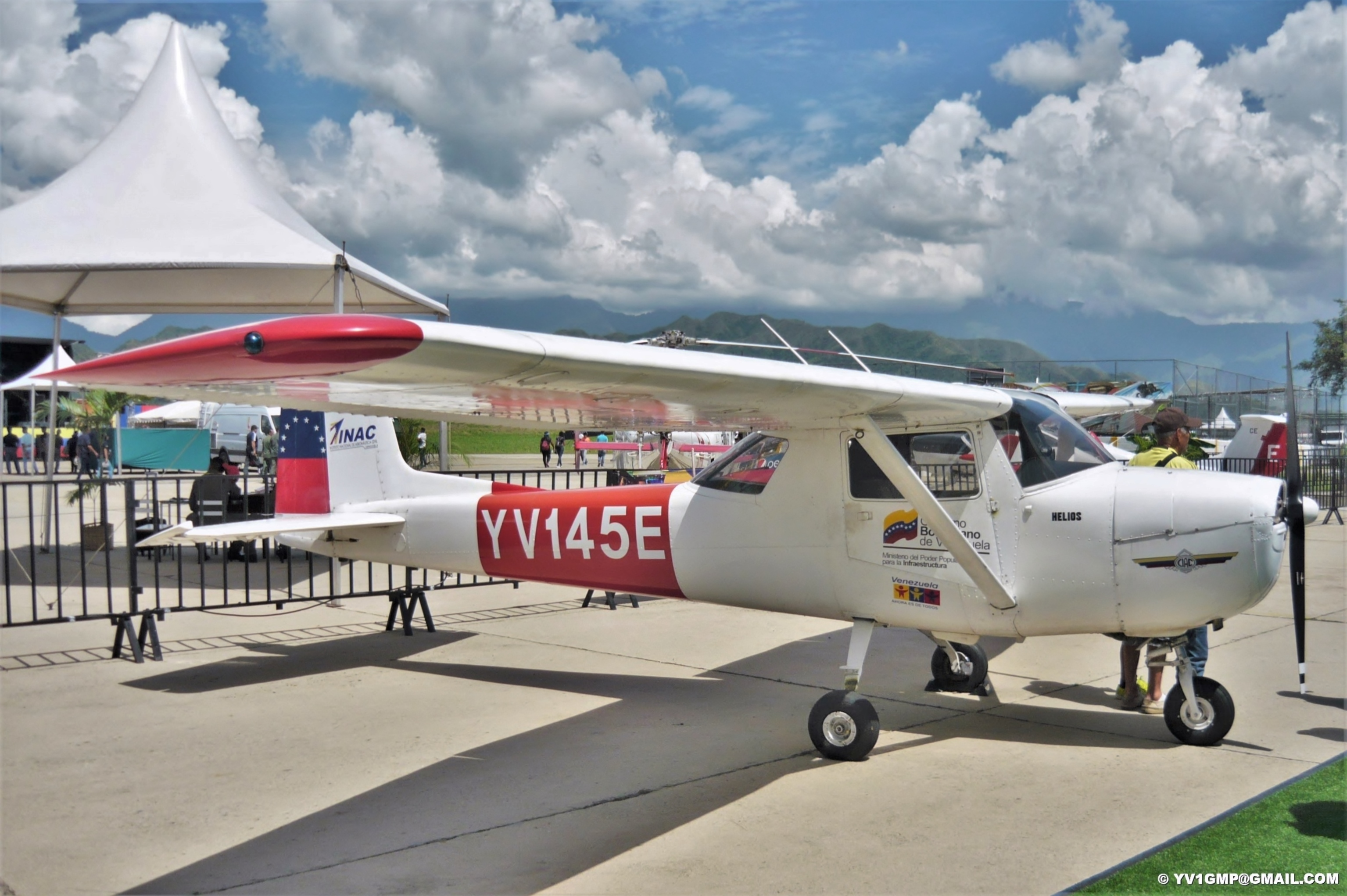 Primary instruction aircraft for the training of Civil and Military Aviation pilots in Venezuela